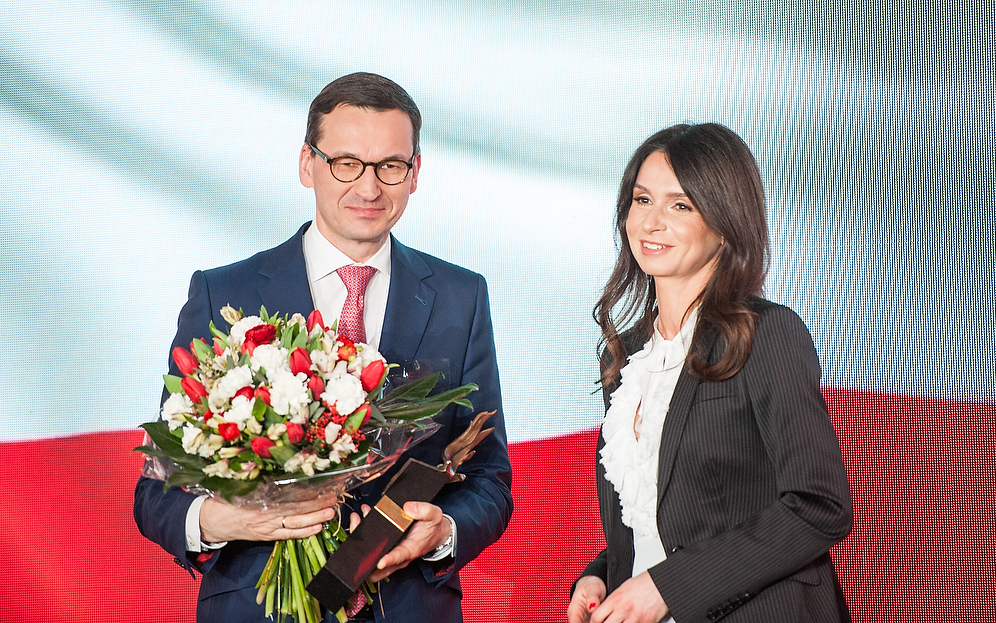 2018.03.26 Warsaw. Prime Minister Mateusz Morawiecki took part in the ceremony of awarding them. President of the Republic of Poland Lech Kaczyński, of whom he became a laureate.